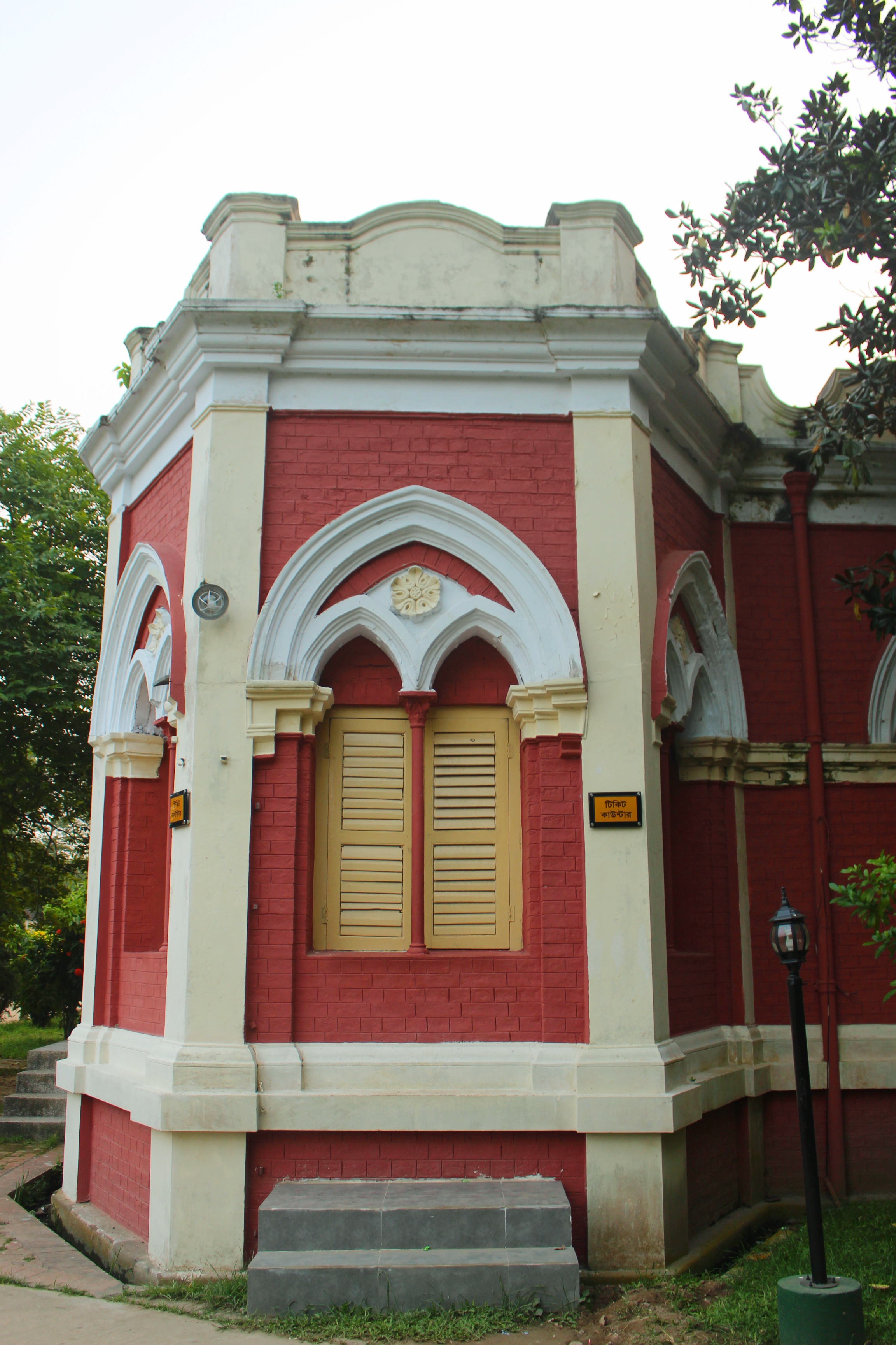 Uttara Gonovaban Museum